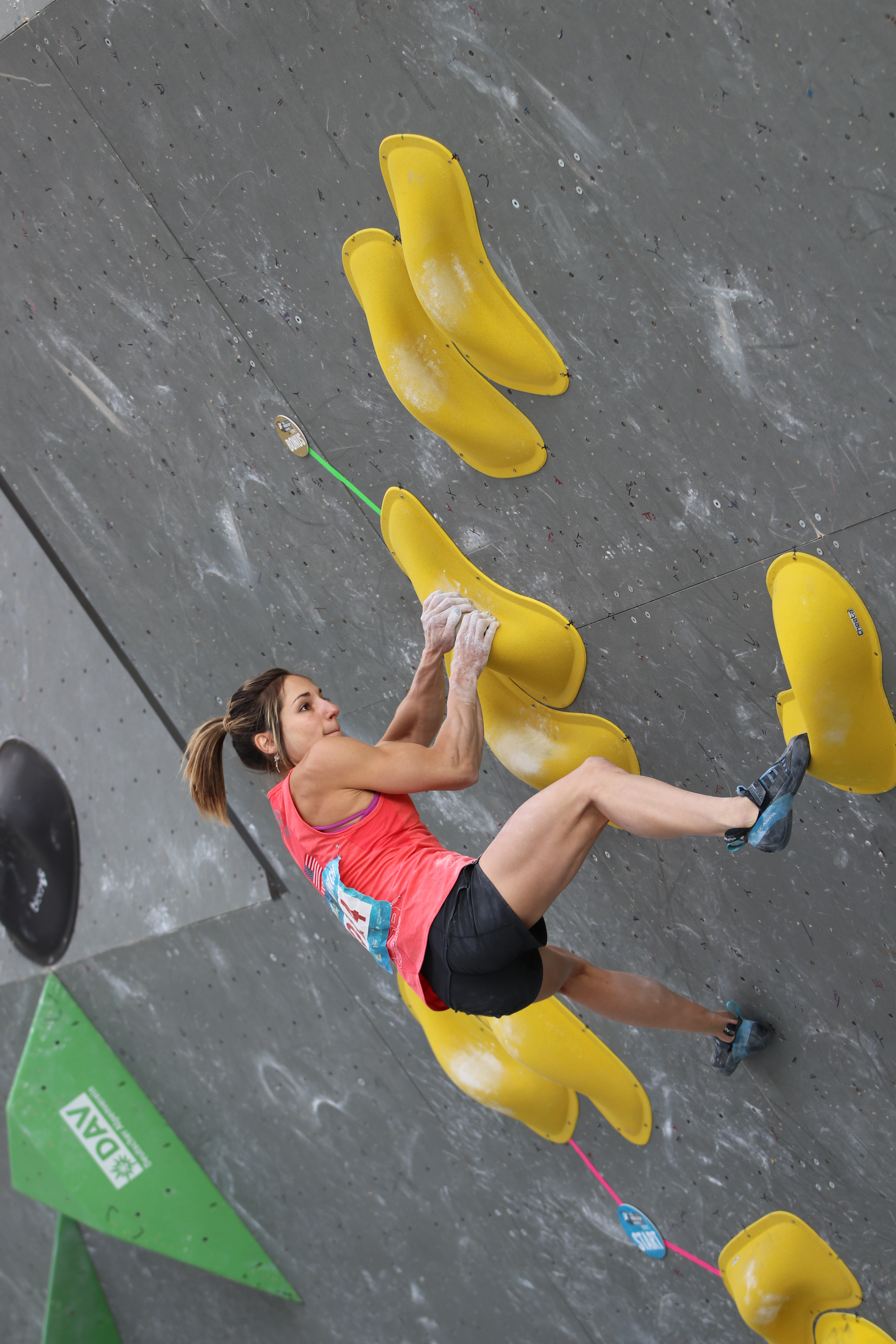 Alex Puccio, sports climber from the USA, at the Boulder Worldcup 2017 in Munich, Germany